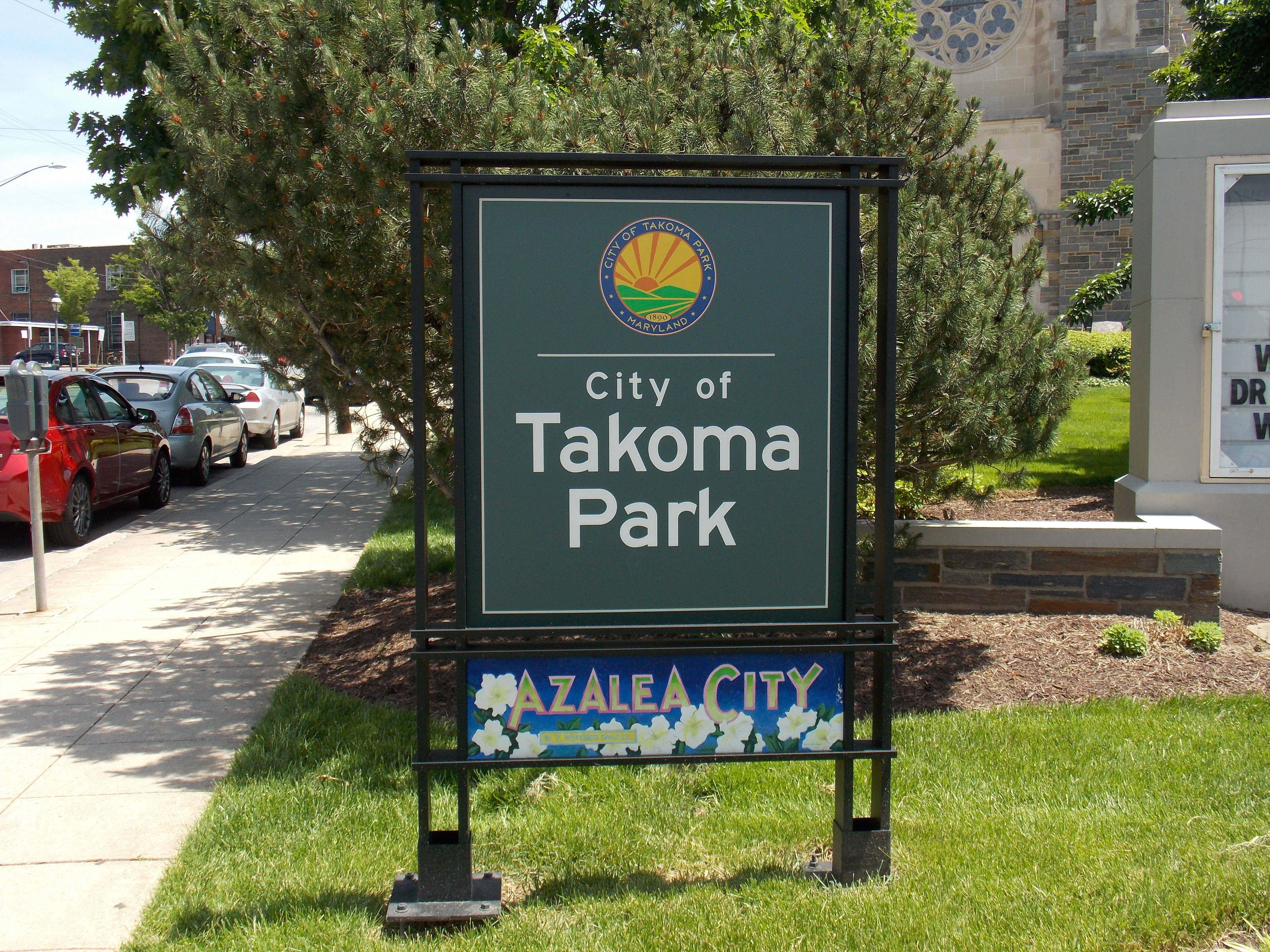 The sign entering Takoma Park, Maryland from Washington, D.C.